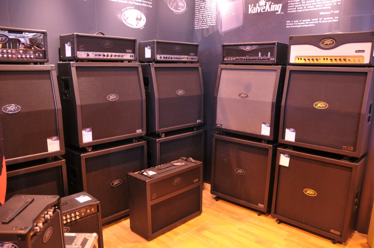 Peavey Guitar amplifiers family